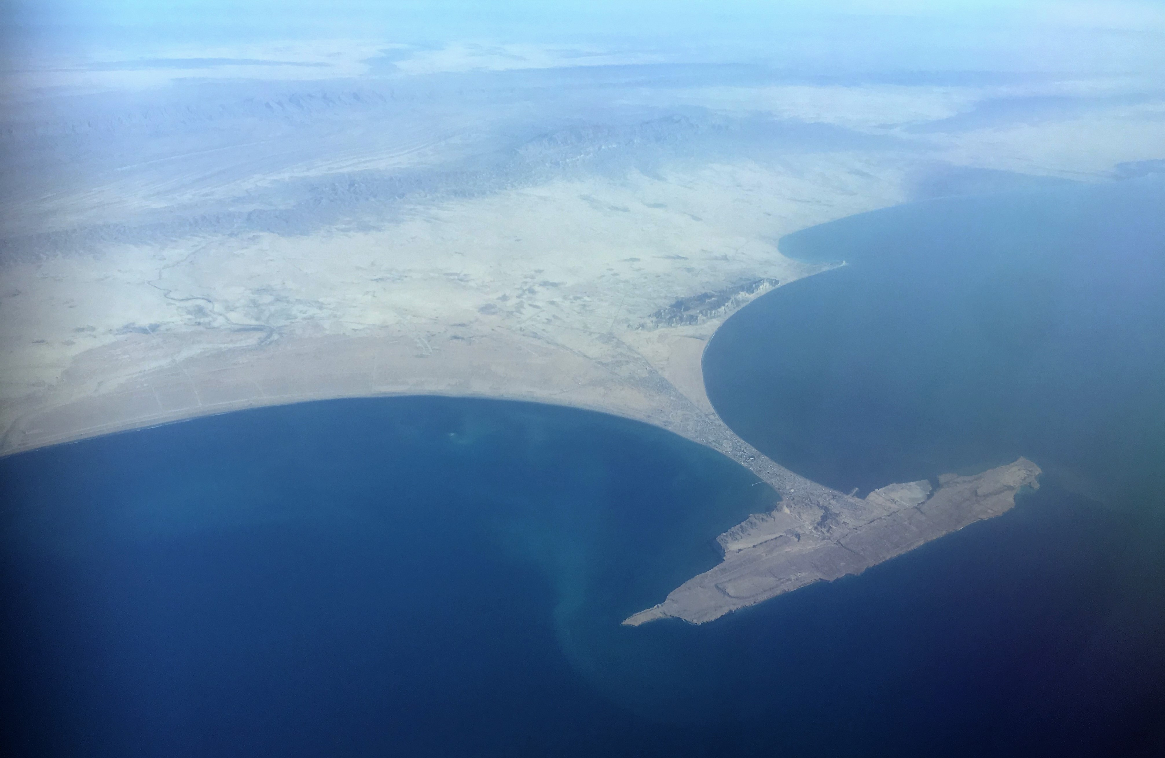 Aerial view of Gwadar (balochistan), western Pakistan, by the Arab Sea. This port is being leased to China for 43 years under the CPIC treaty. To the left is Paddi Zirr (bay). To the right is Demi Zirr (bay).